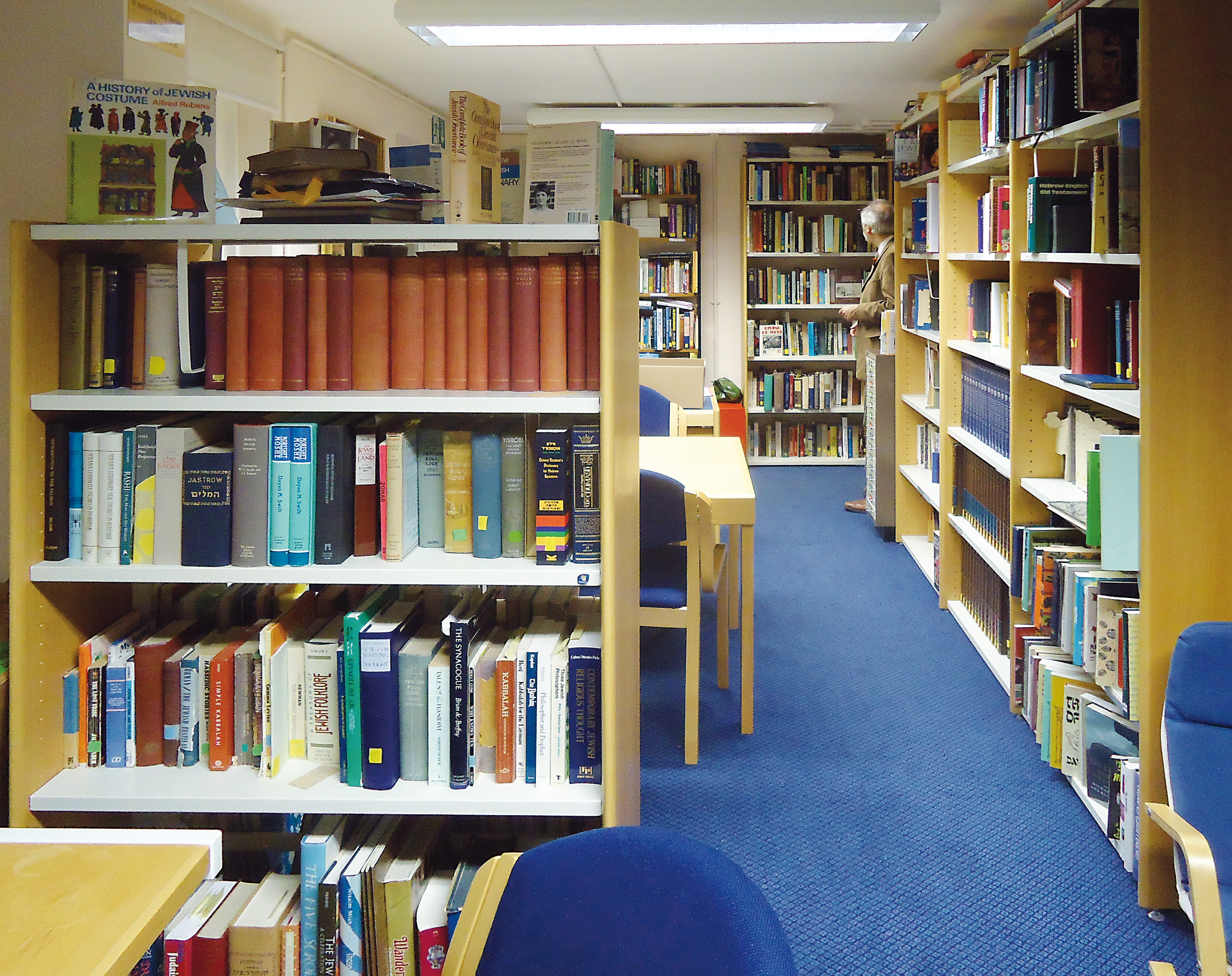 Inside part of the library at Maidenhead Synagogue, Berkshire